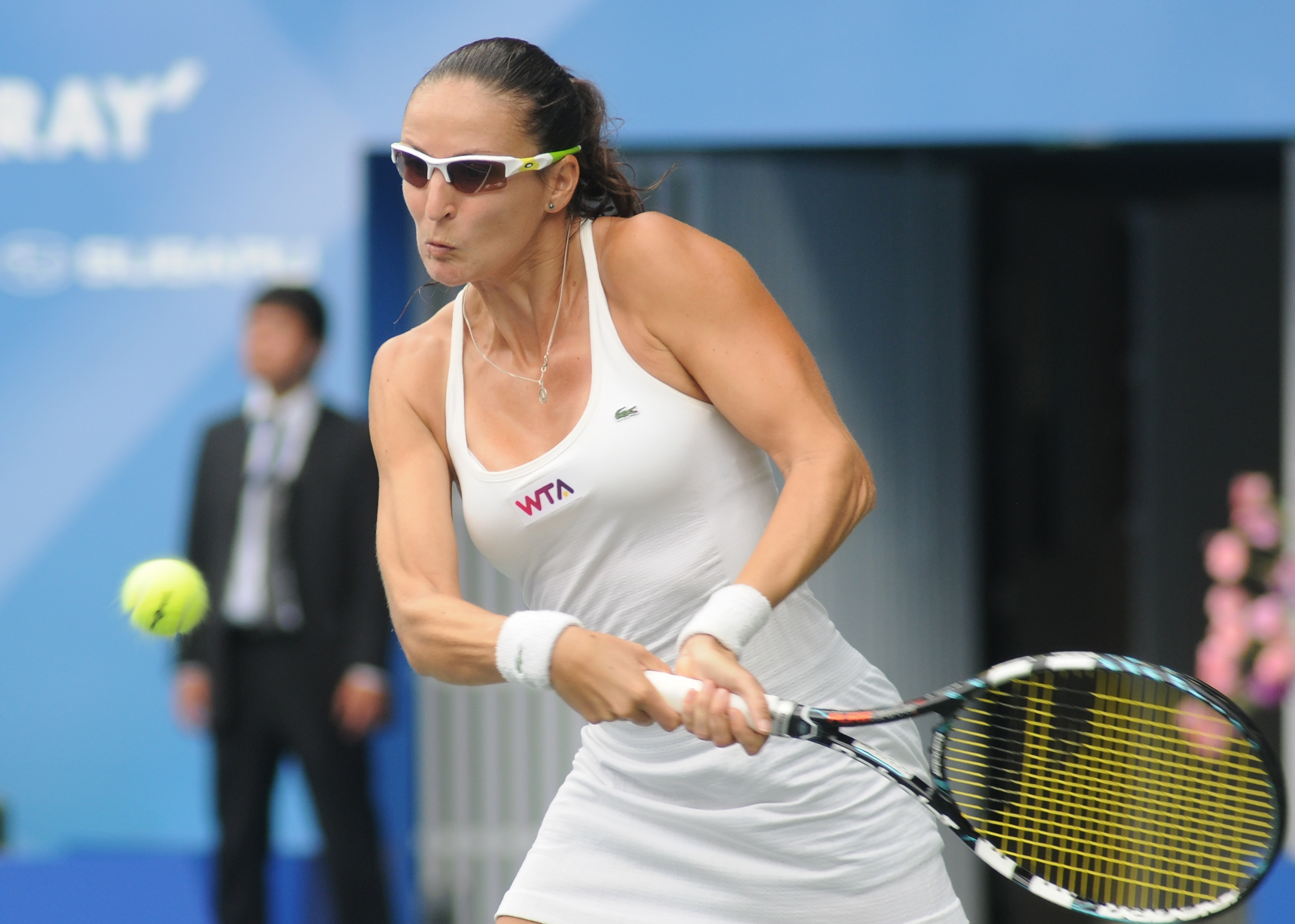 Arantxa Parra Santonja at the 2014 Toray Pan Pacific Open